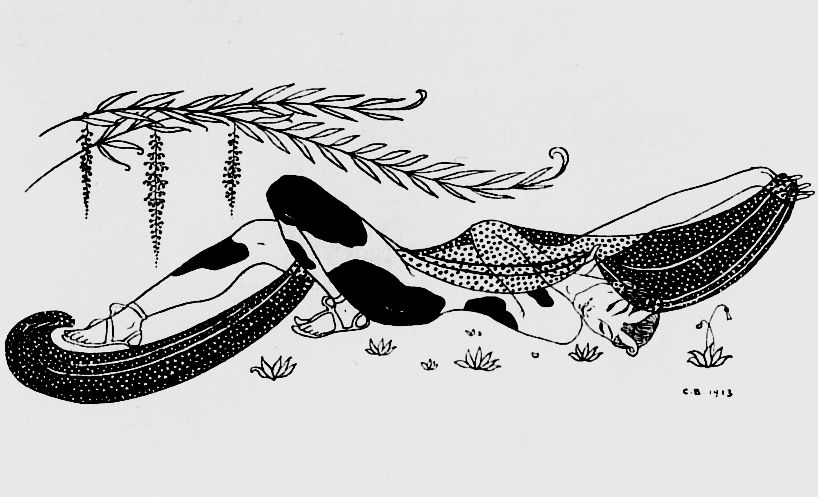 Drawing of Vaslav Nijinsky by George Barbier